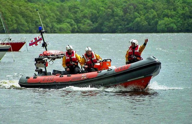 Lower Lough Erne lifeboat The RNLI operates two lifeboats on the fresh waters of Lough Erne. The station on Lower Lough Erne opened in 2001. The present boat is an Atlantic 21 class “Ernest Armstrong” on station since 2003.